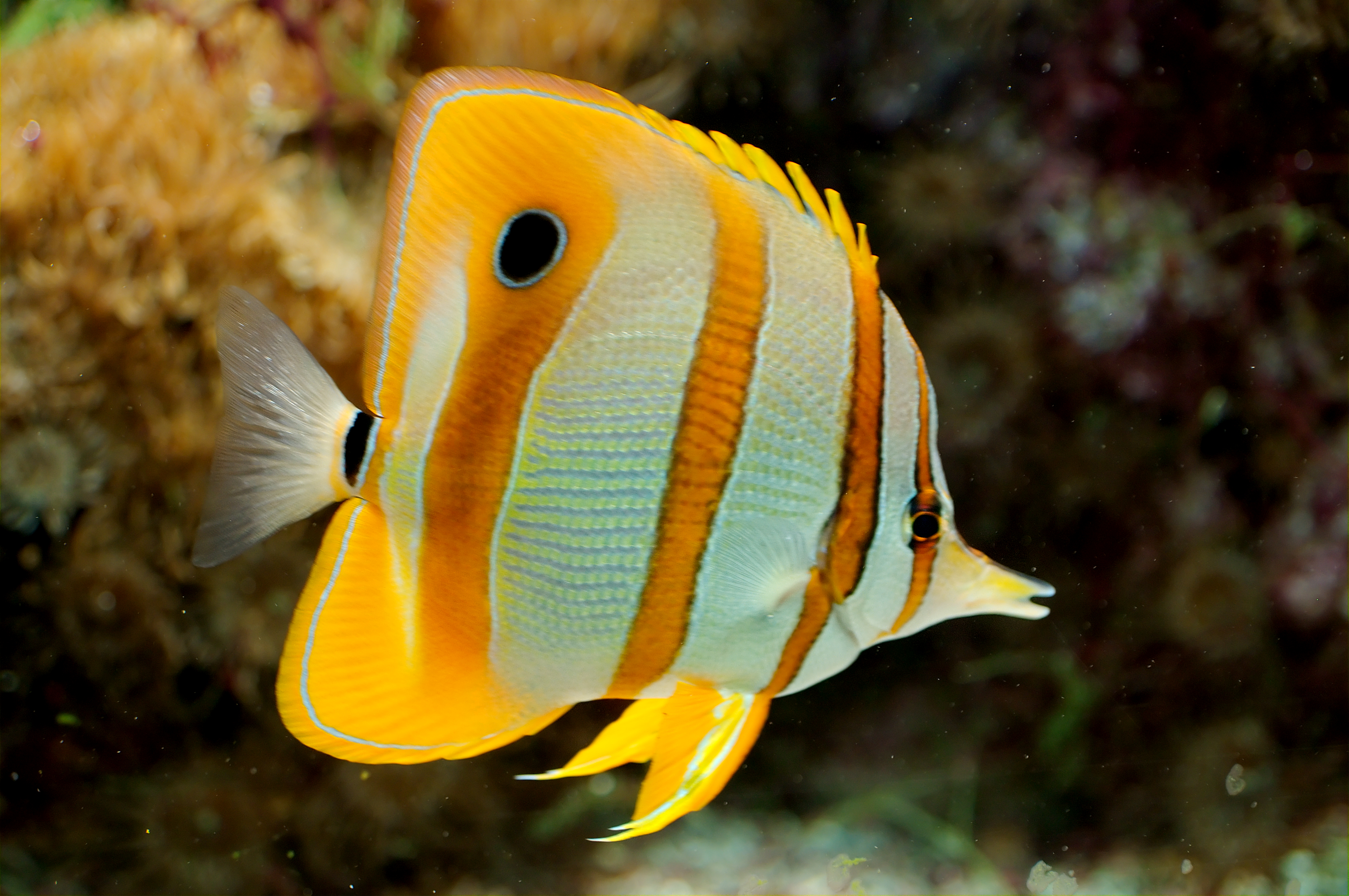 Copperband butterflyfish in aquarium-Muséum Liège (Belgium)